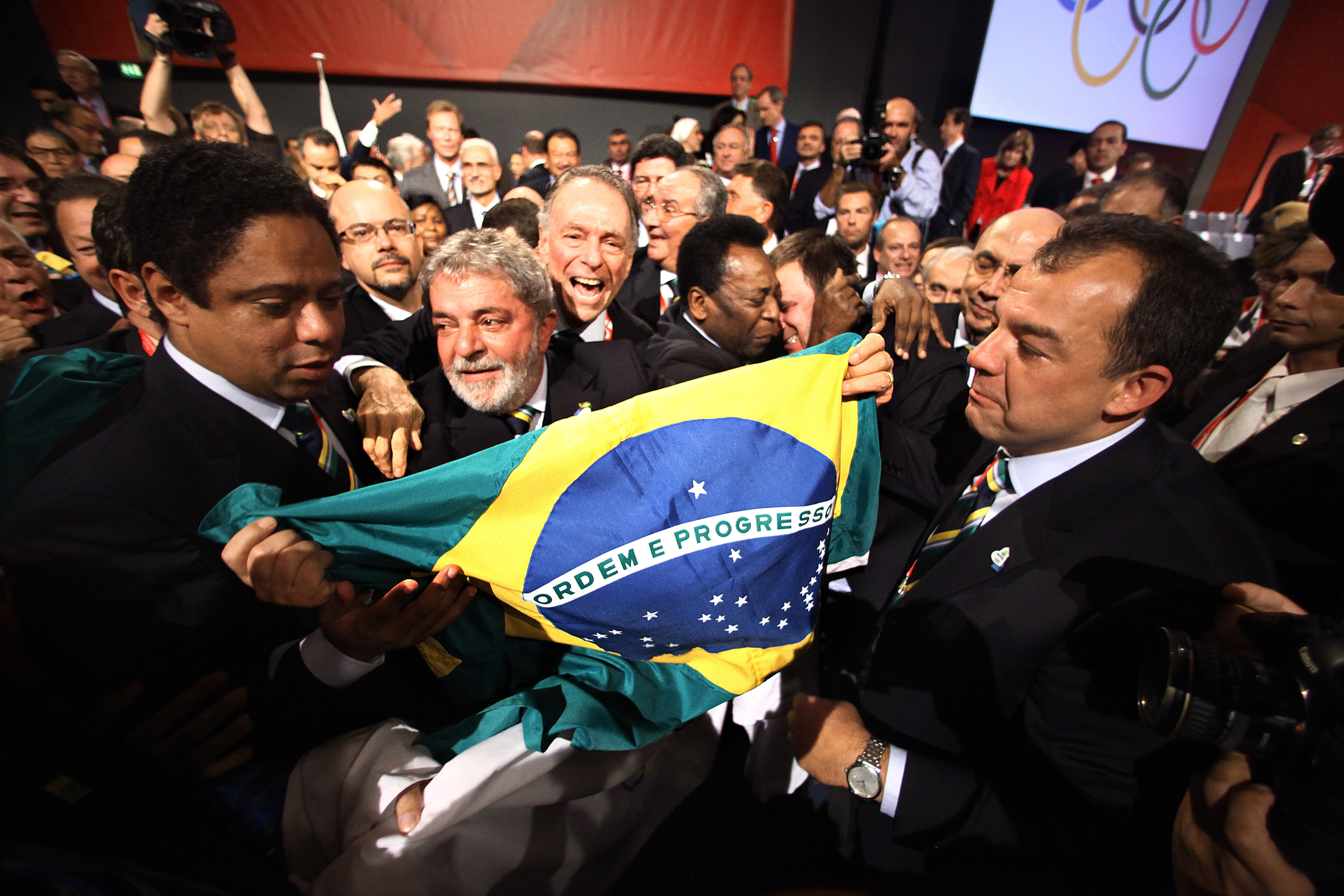 The President of Brazil, Luiz Inácio Lula da Silva, holds a national flag during the celebration of the choice of Rio de Janeiro as the host city of the 2016 Summer Olympic Games.(From left to right: Orlando Silva, Luiz Inácio Lula da Silva, Carlos Arthur Nuzman, Pelé, Eduardo Paes, Henrique Meirelles and Sérgio Cabral Filho.)